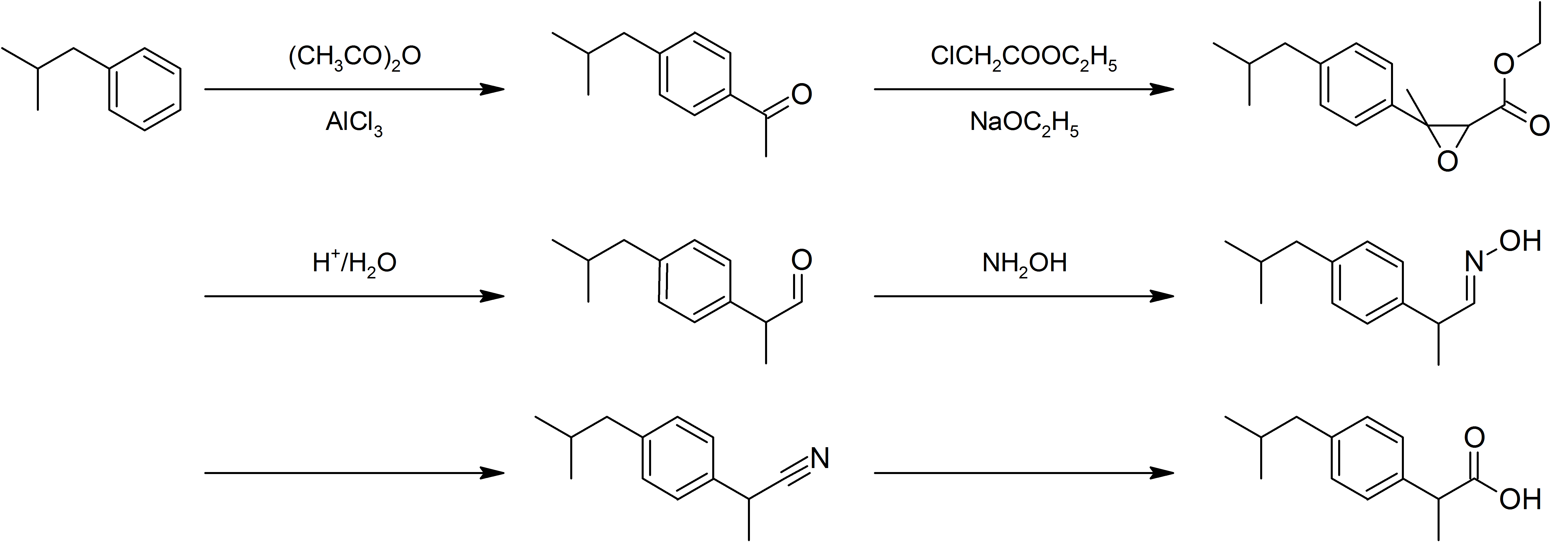 The original Boots synthesis of ibuprofen Adapted from